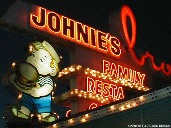 Nighttime shot of the Johnie's Broiler neon sign — in Downey, Southern California. 1950s Googie architecture, in 2002 before semi-demolition and restoration.